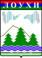 Gerb